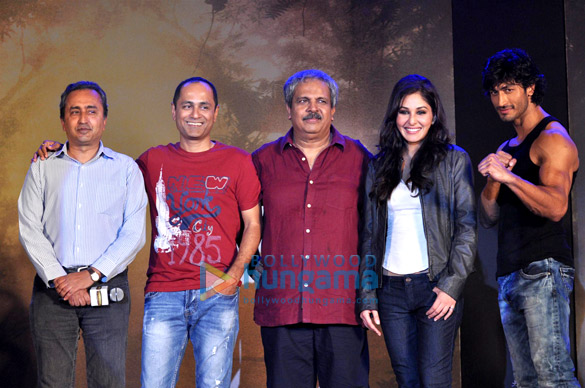 First look launch of ‘Commando’